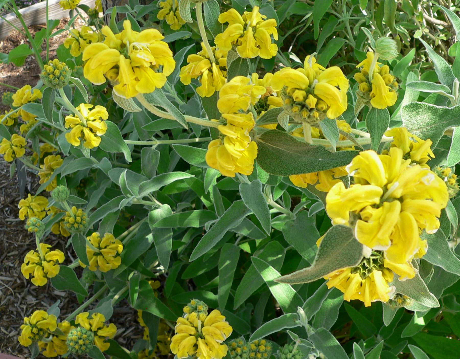 Photo of Phlomis fruticosa (Jerusalem sage) at the Desert Demonstration Garden in Las Vegas, Nevada